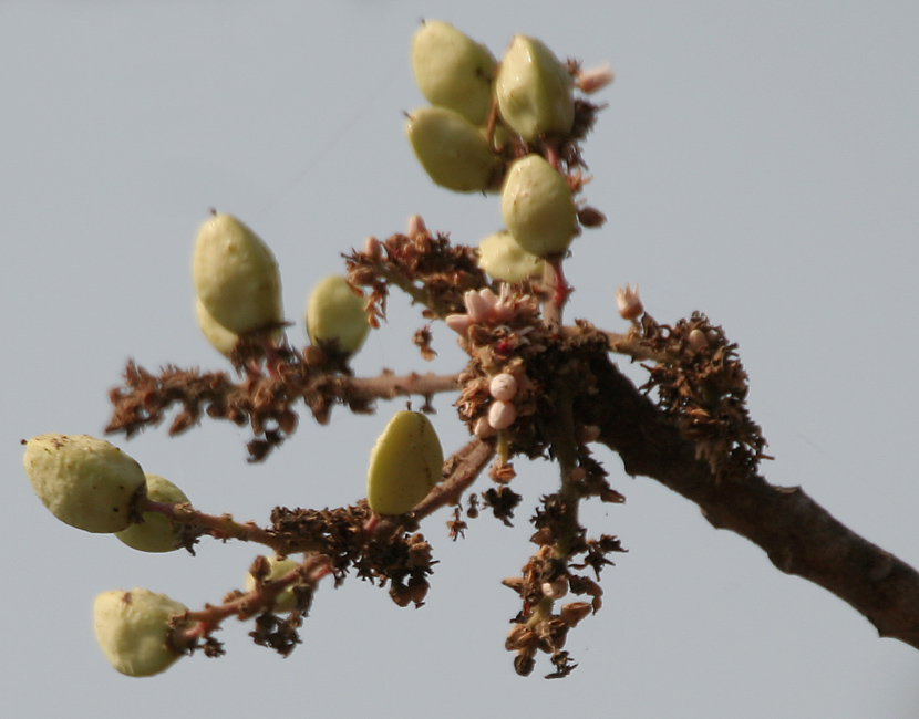 Indian frankincense or Salai Boswellia serrata in Kinnerasani Wildlife Sanctuary, Andhra Pradesh, India.